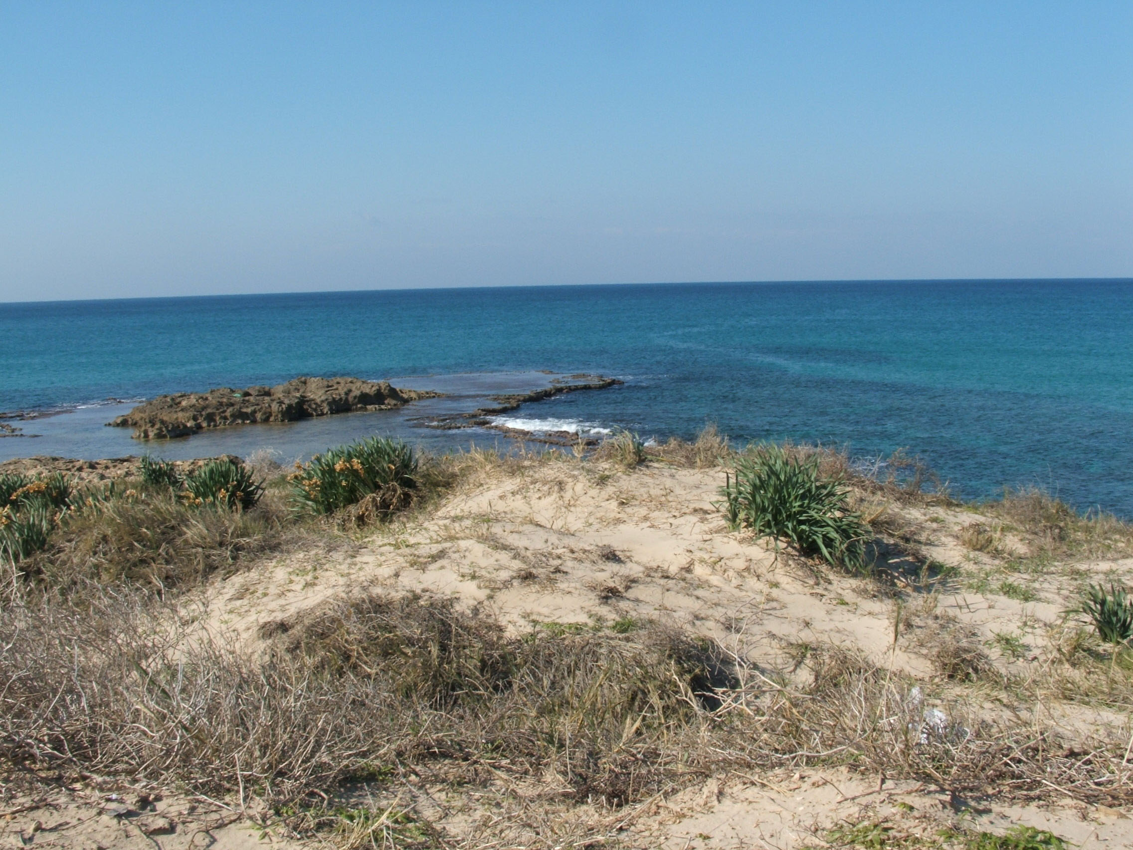 Beaches of Israel